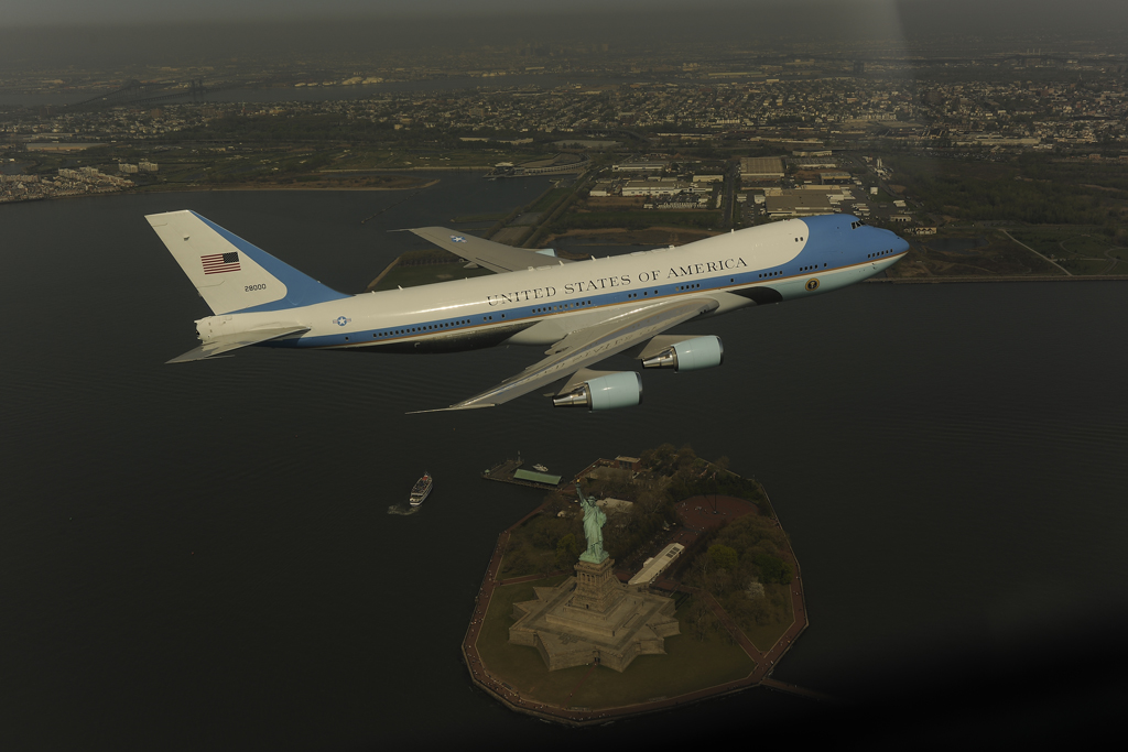 A Boeing VC-25 (tail number 28000) standing in as Air Force One over the Statue of Liberty and the Hudson River, with New Jersey in the background. The flyover, intended as a training mission and photo shoot of the presidential plane, included the aircraft and an F-16 fighter plane escort. It caused a panic in New York City that led to the resignation of Louis Caldera, director of the White House Military Office.